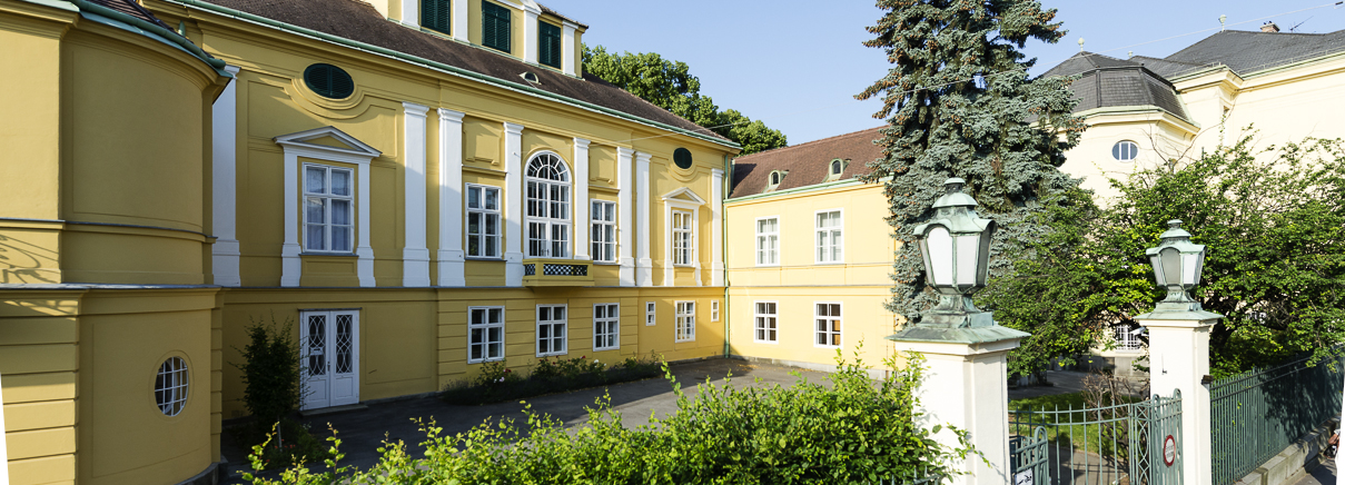 Mainbuilding of the LBS